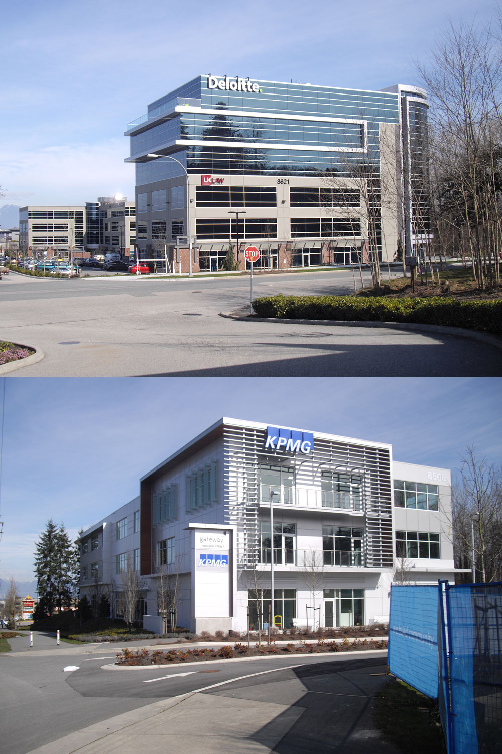 Commercial Buildings in Carvolth Neighbourhood - Langley, BC